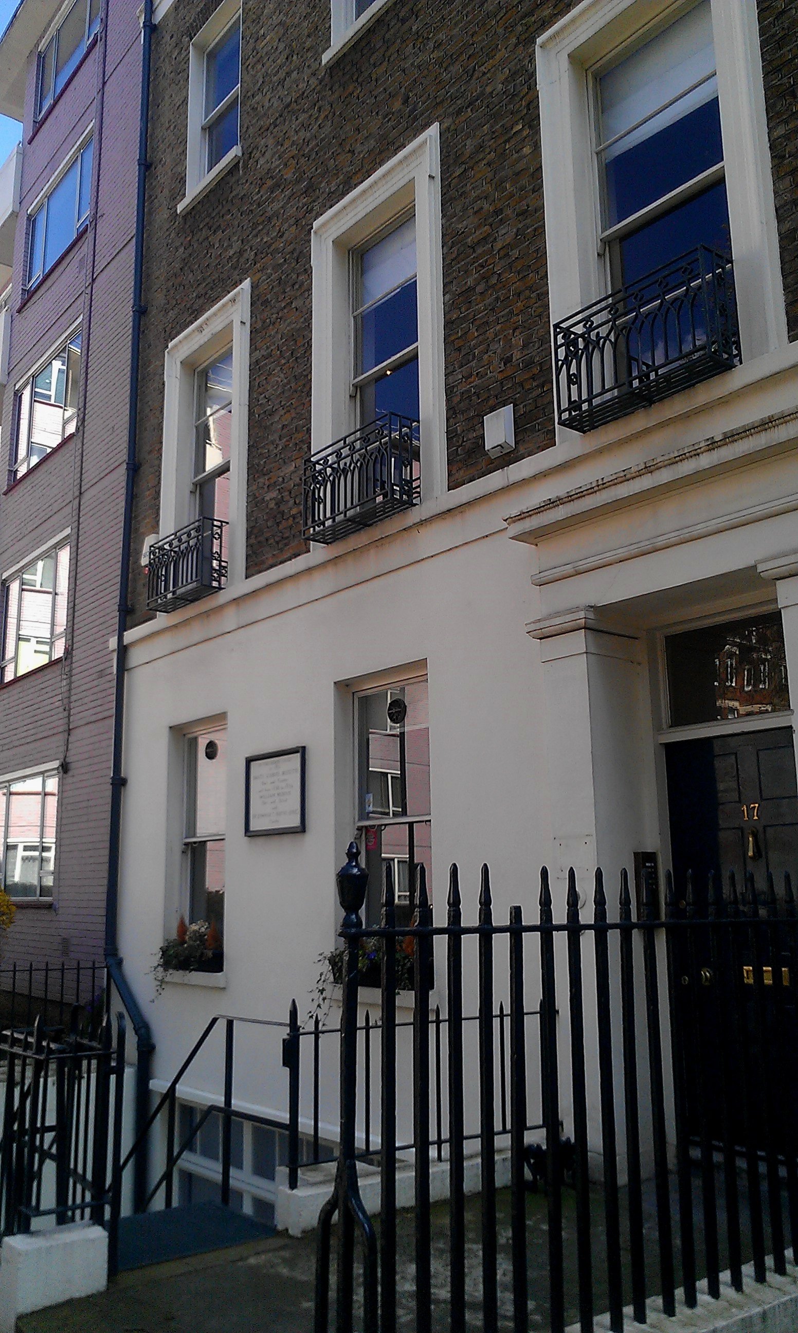 Flat in Red Lion Square, Holborn, in which William Morris and Edward Burne-Jones lived in the 1850s; a white plaque on the wall reveals this information to passers by.